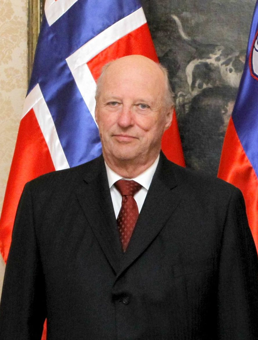 King Harald V and Queen Sonja of Norway with the Slovenian President Danilo Türk and First Lady Barbara Miklič Türk in Slovenia in 2011